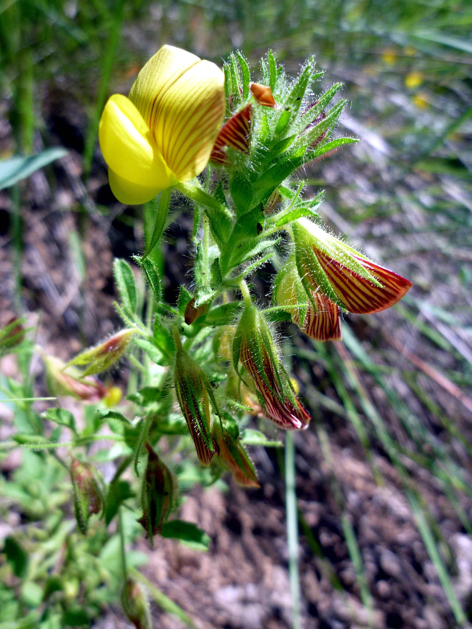 Ononis natrix. In Torà (Segarra - Catalunya). To 570 m. altitude